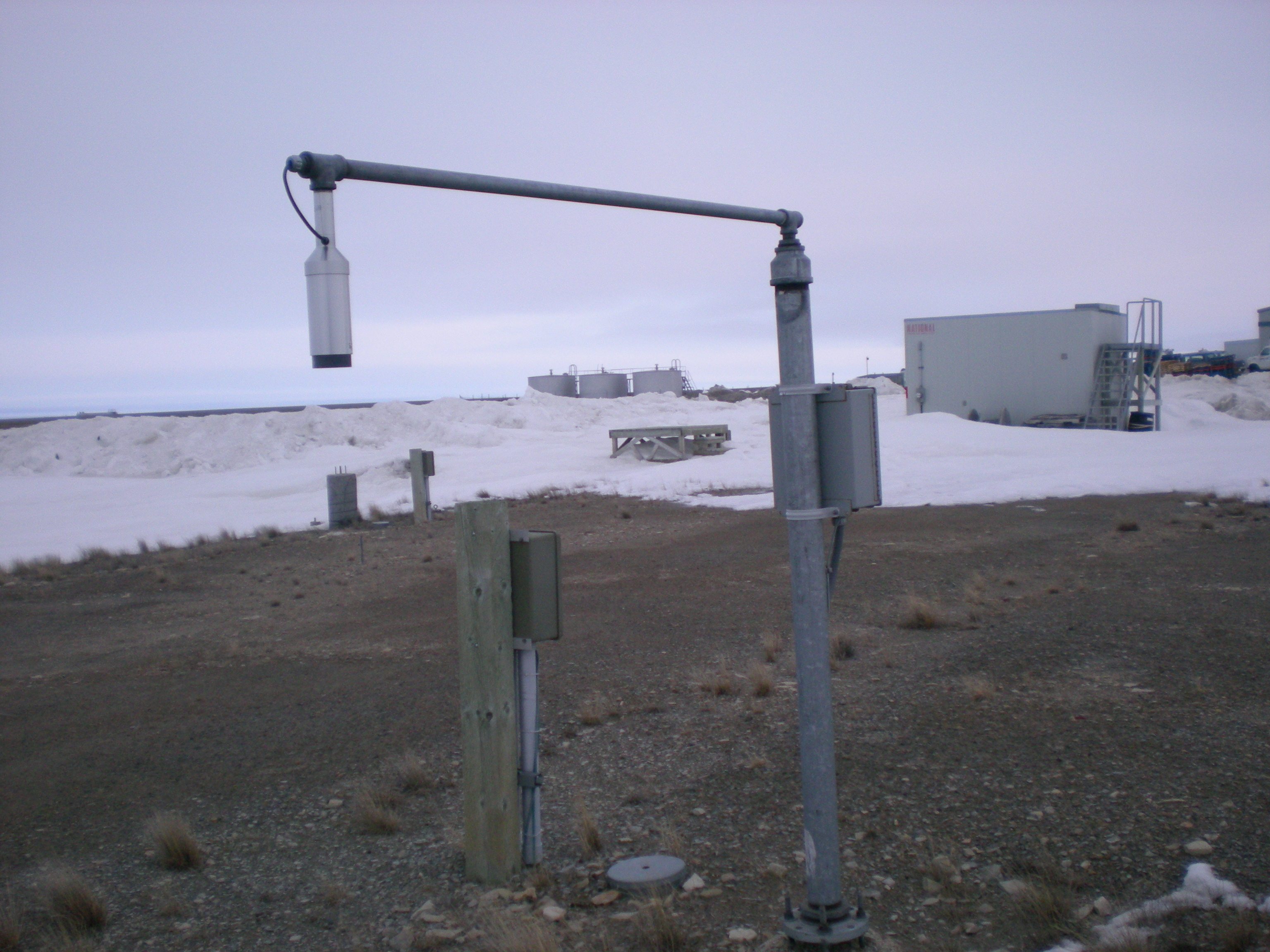 An automatic snow depth sensor